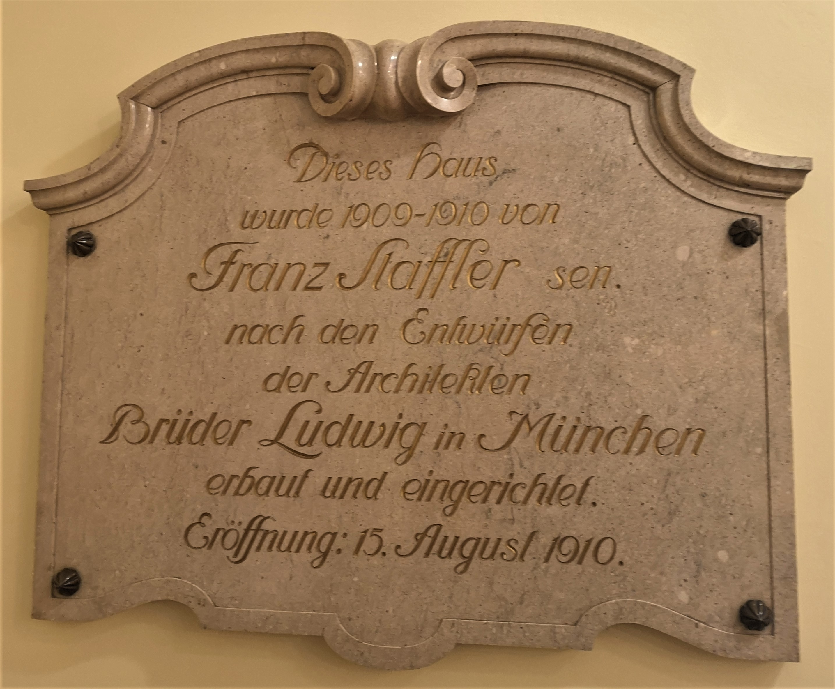 Dedicatory inscription within the Parkhotel Laurin, Bozen-Bolzano, 1910